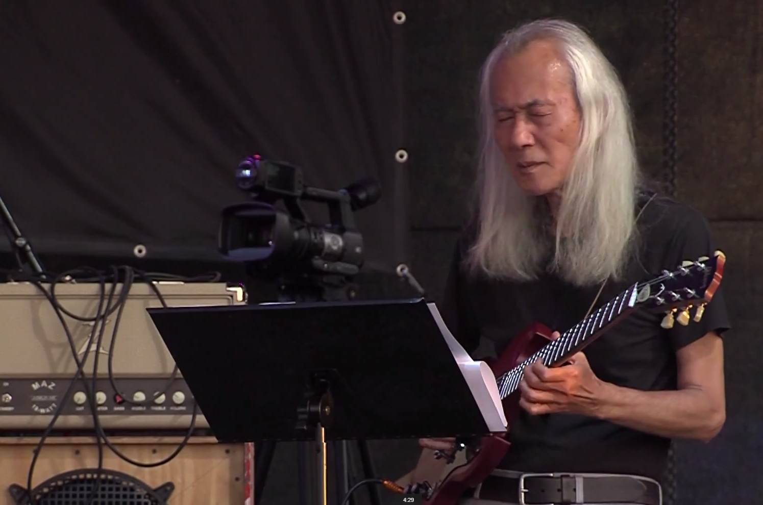 Ryo Kawasaki 2014 in Estonia